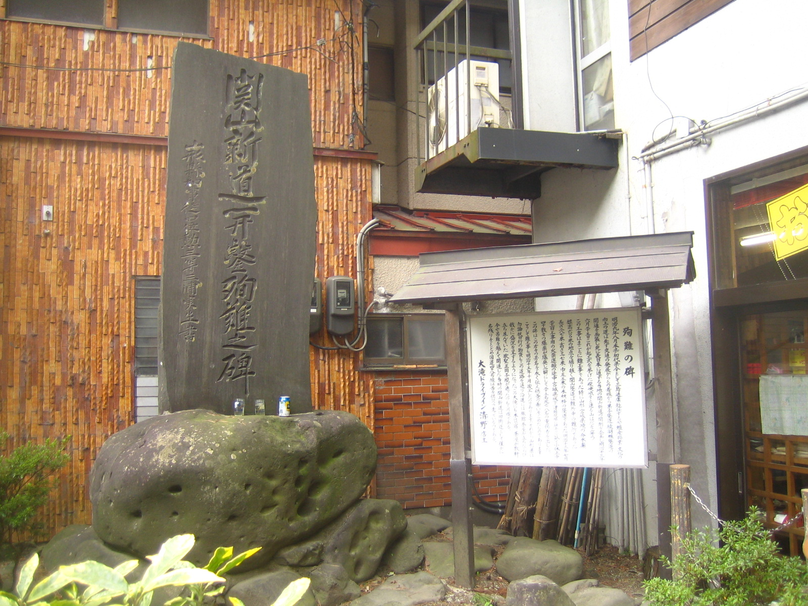 a monument to victims of the sekiyama tunnel accident